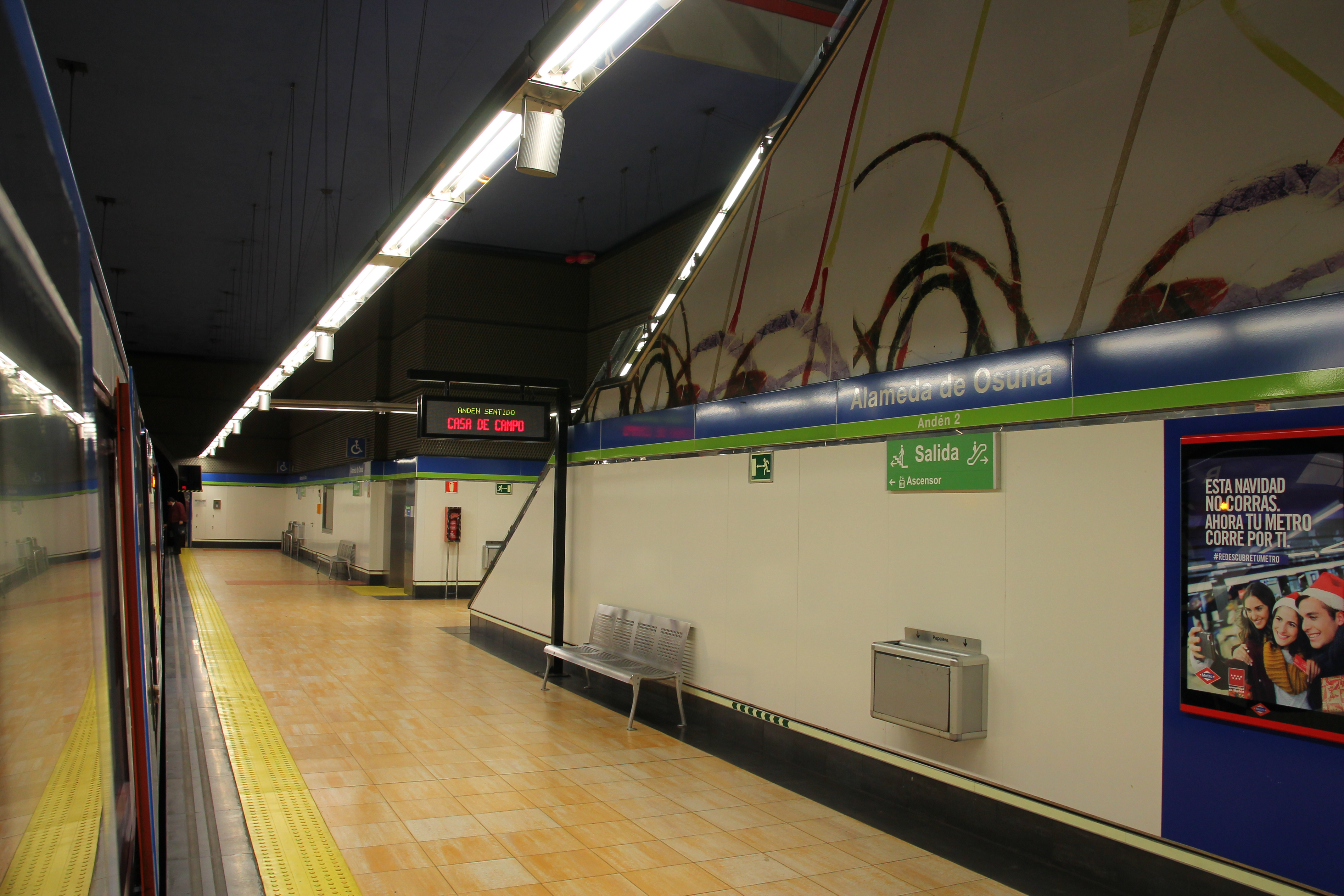 Estación de Alameda de Osuna